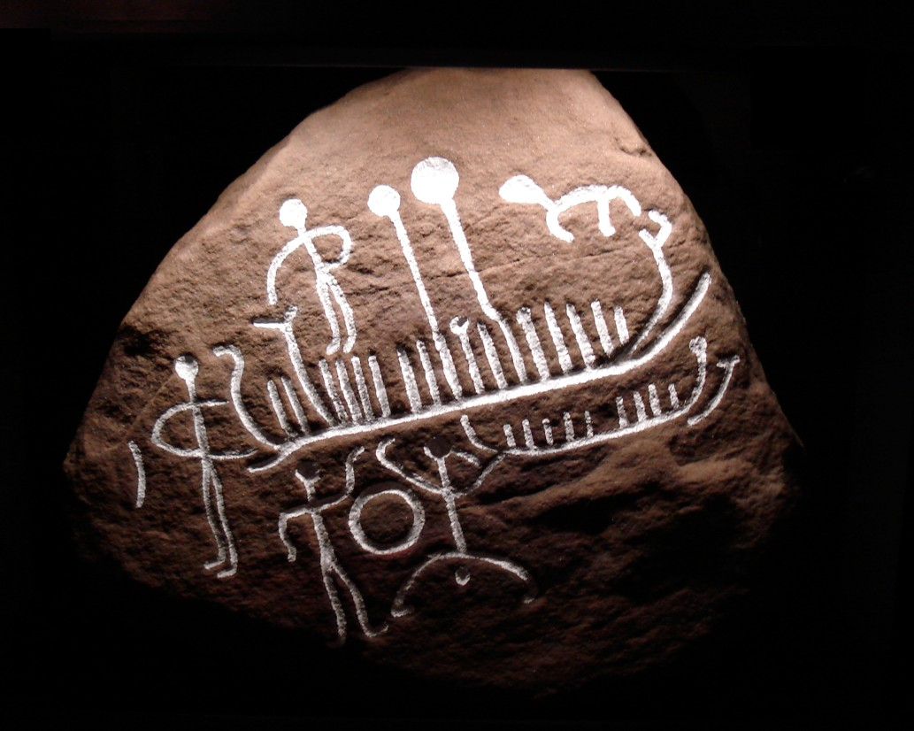 This replica of the Engelstrupsten was shown as part of the exhibition "A heaven on earth" in 2013 in the Heimatmuseum of Osterwieck. The original can be found in the National Museum of Copenhagen.